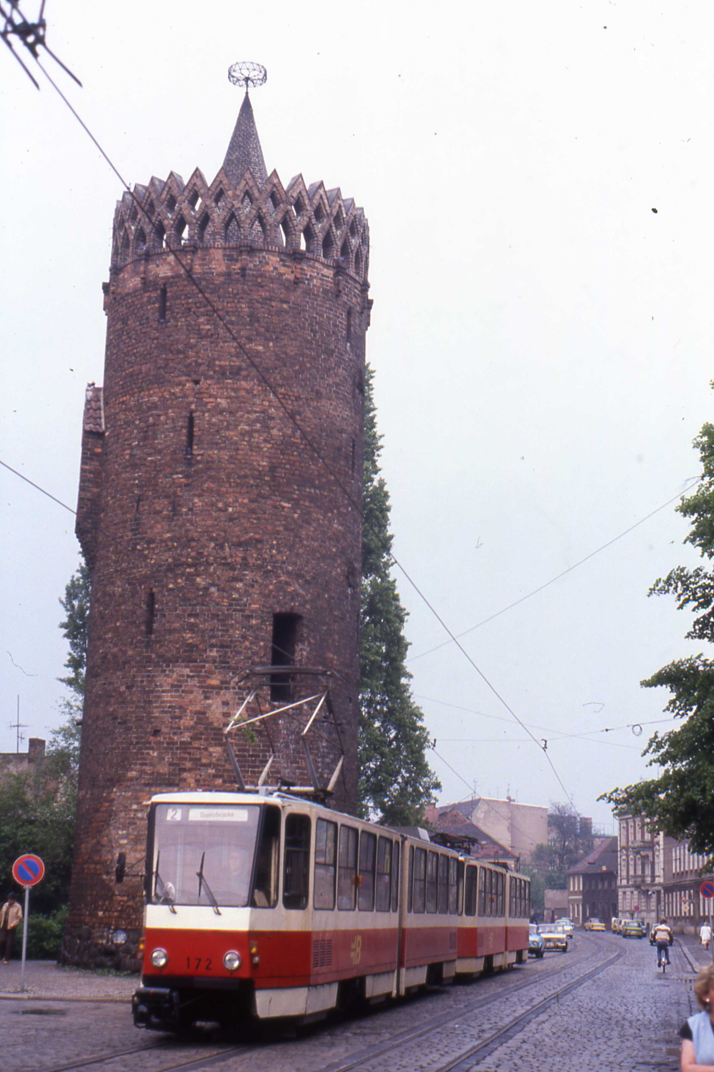 Tatra KT4D trams in Brandenburg an der Havel, former East Germany